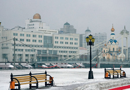 Belgorod University winter